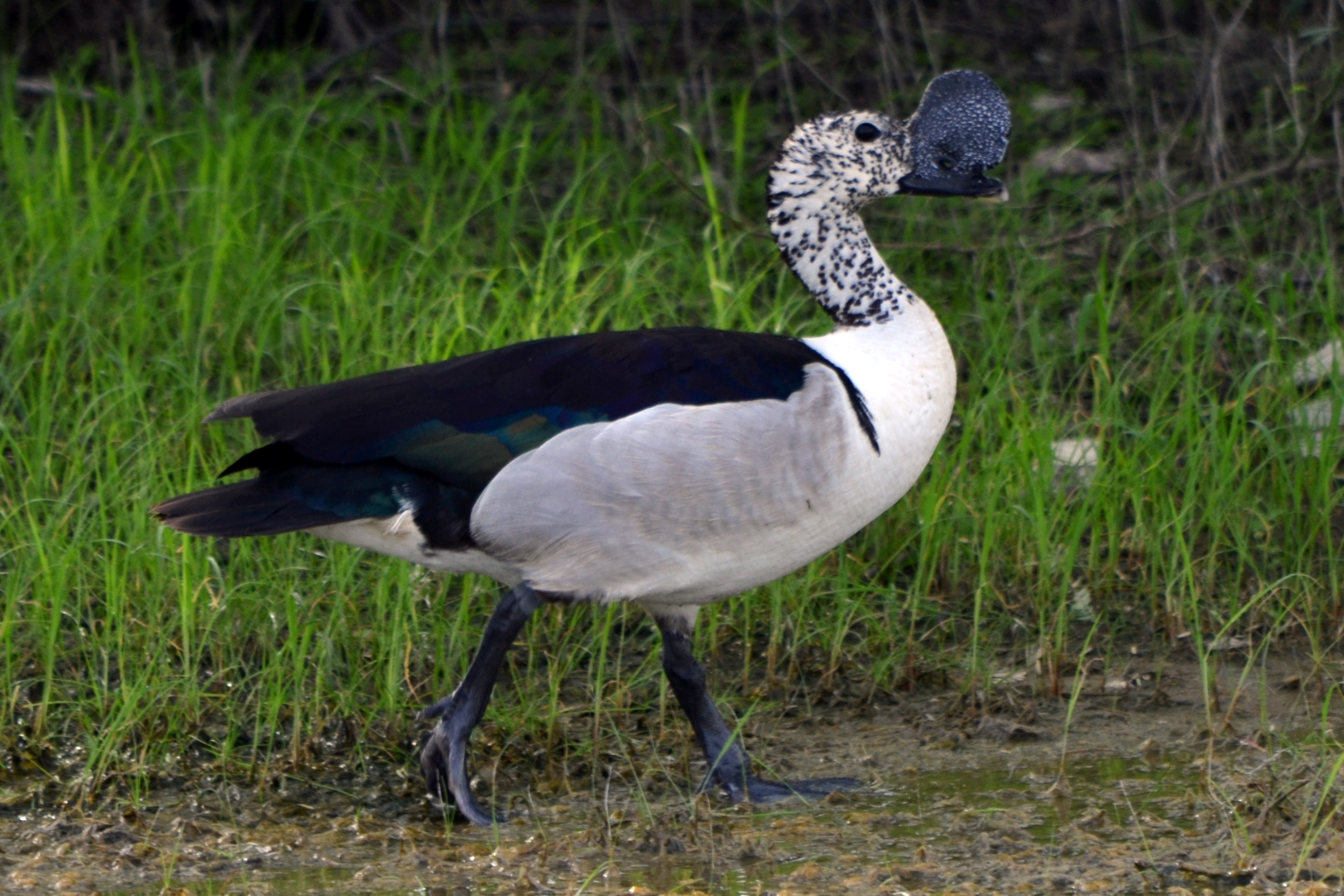 Indian Male knob billed duck, in marshlands of Rajasthan.